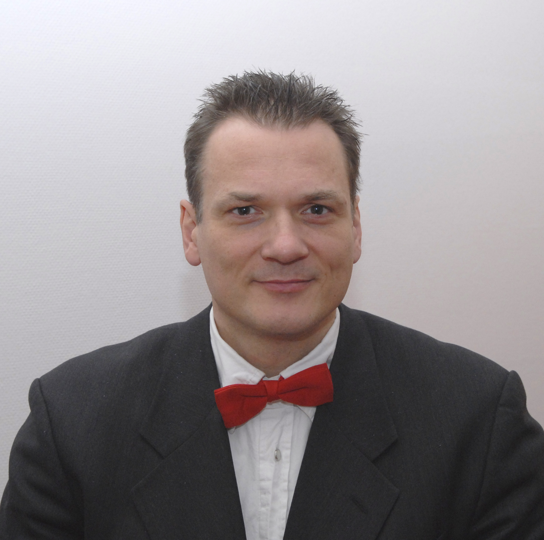 Portrait of the composer Marc Lingk